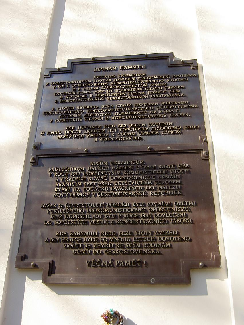 Memorial plaque to Russian, Ukrainian and other emigrees who fought in the White Army, than settled in Czechoslovakia and deported to the USSR after 1945, Orthodox church of the Dormition, Olšany Cemetery, Prague, Czech Republic